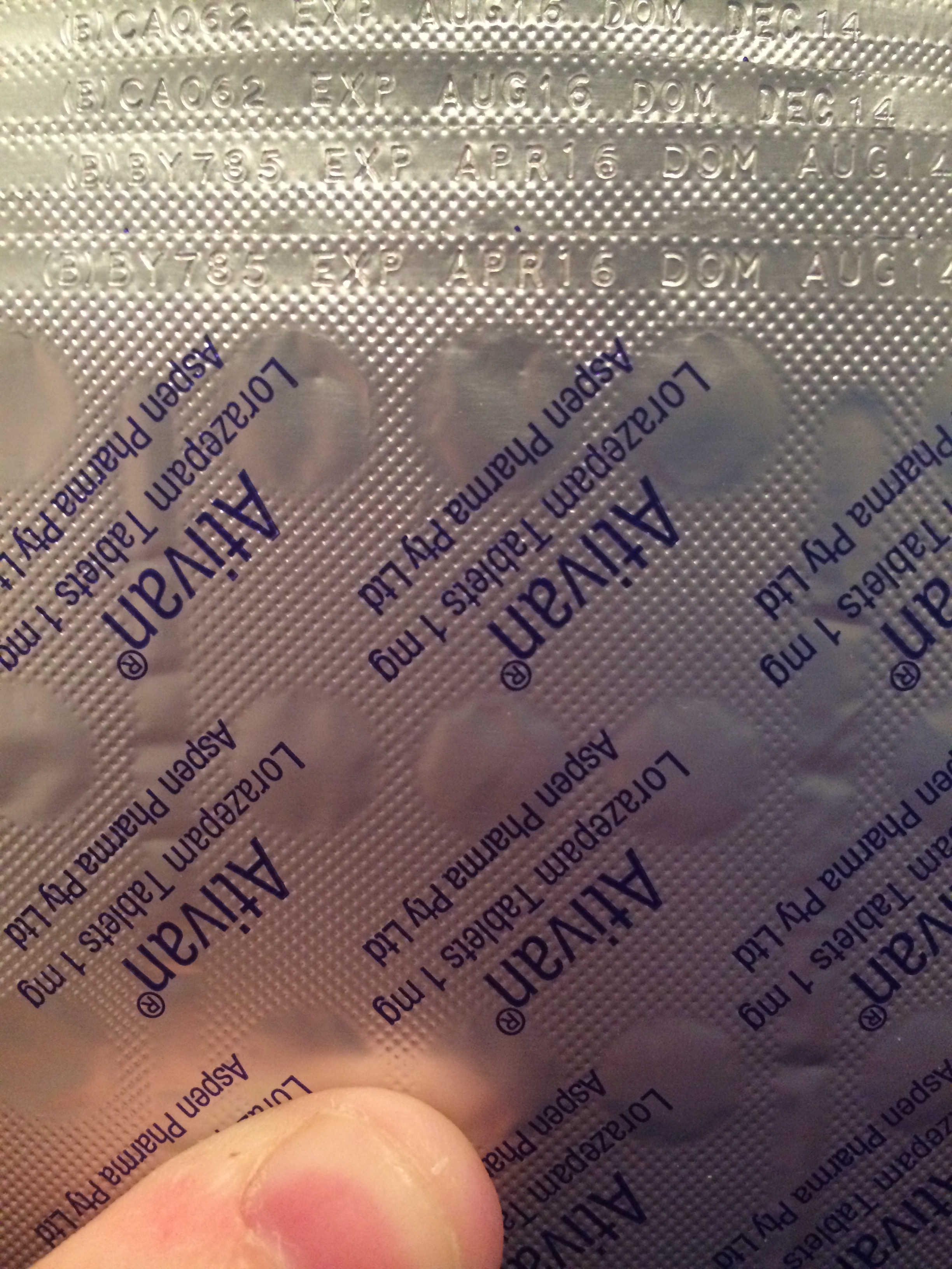 Four 1mg lorazepam (Ativan brand) blister packs by Aspen Pharma Pty. Ltd. Top two blister packs: Batch number CAO62 Expiry date August 2016 Date of manufacturing December 2014 Bottom two blister packs: Batch number BY785 Expiry date April 2016 Date of manufacturing August 2014